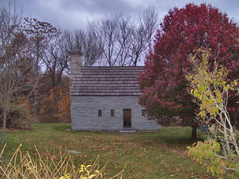 I created this image of the Irons house and release my work to the public domain.